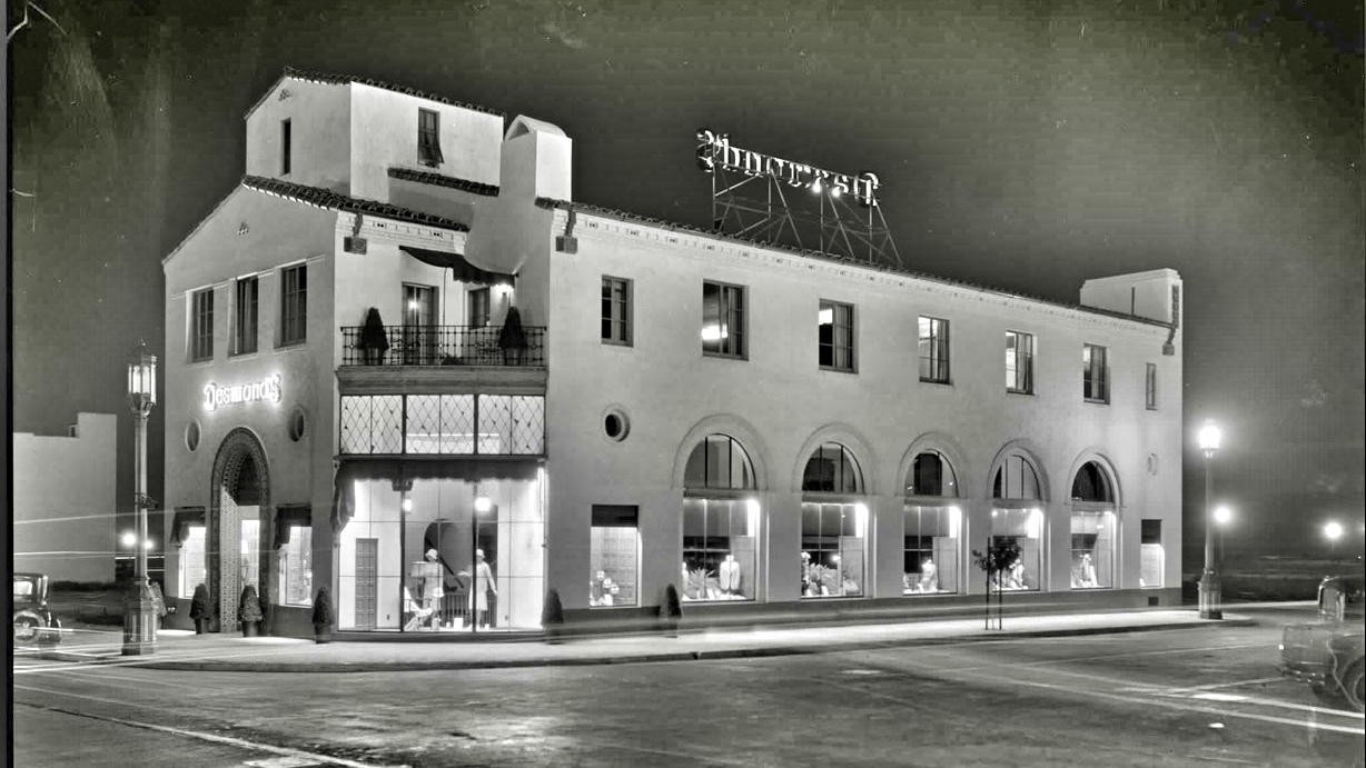 Desmond’s department store Westwood branch 1925